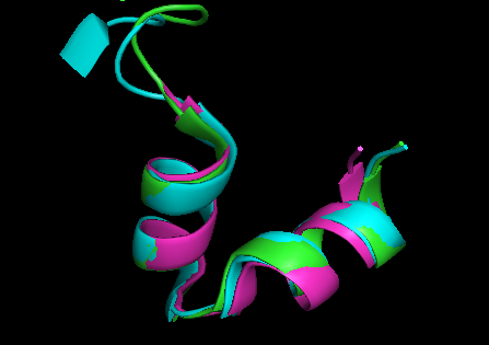 A structural alignment of the helix-turn-helix motif from three TetR family members: SimR (cyan), MtrR (magenta), & AmtR (green)